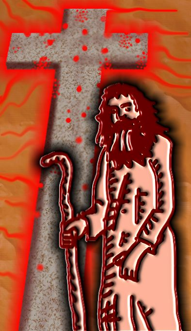 I don't do art for a living, neither for personal nor professional propaganda. I don't make any drawings for money. Thanks.